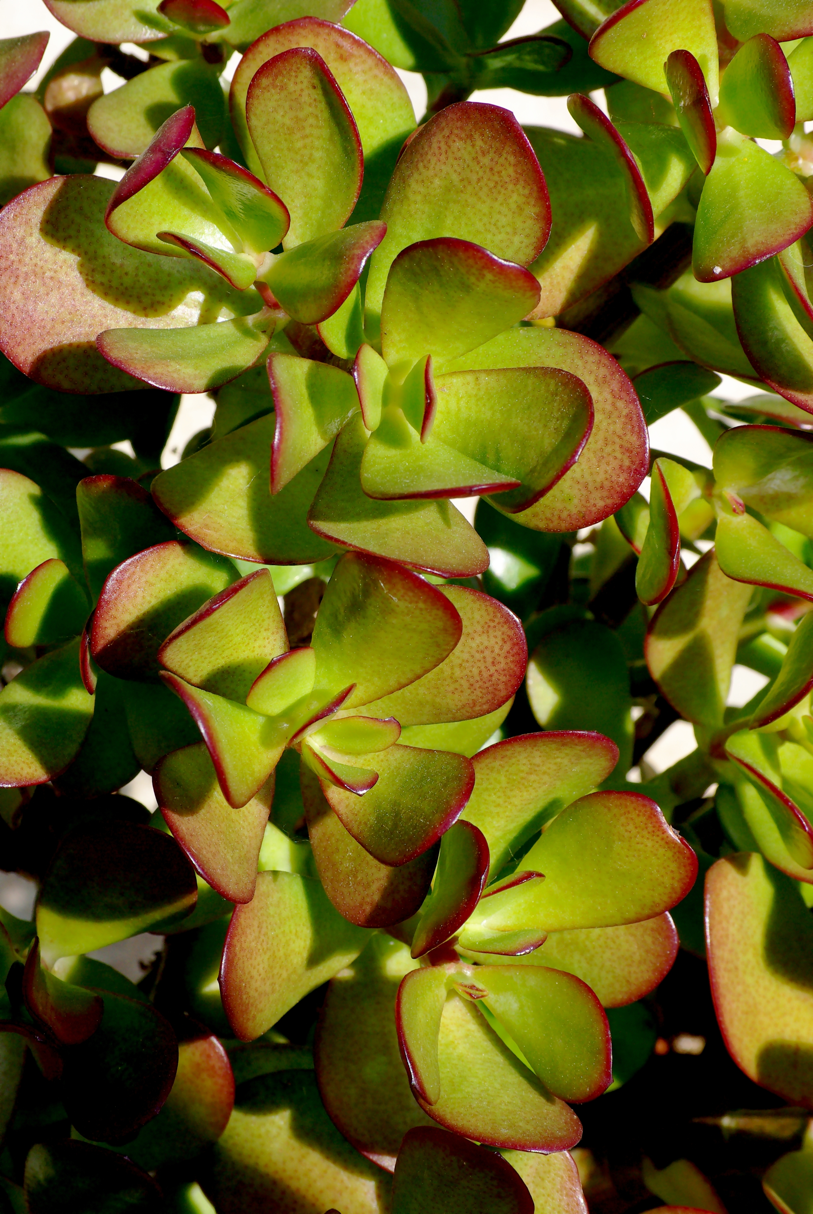 Crassula ovata (Jade plant), France.